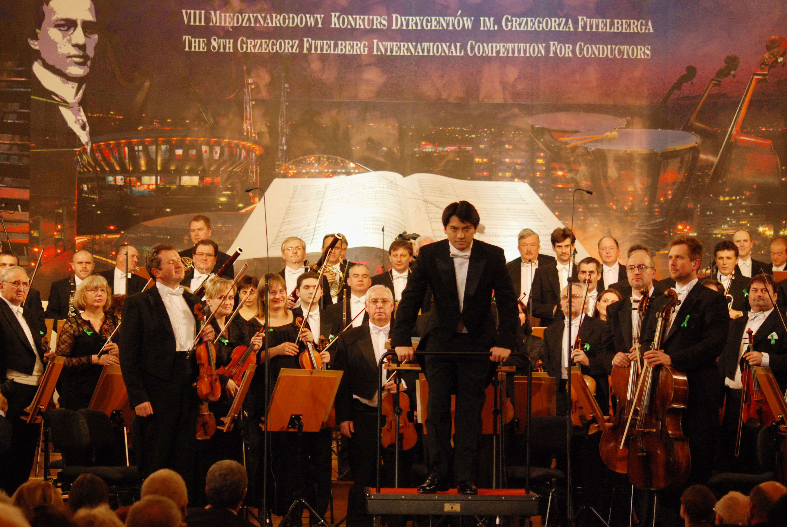 Eugene Tzigane 1st Prize during The 8th Grzegorz Fitelberg International Competition for Conductors in Katowice